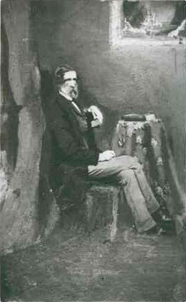 James Shaw (artist) (1815-1881), was a topographical artist and early colonist of South Australia